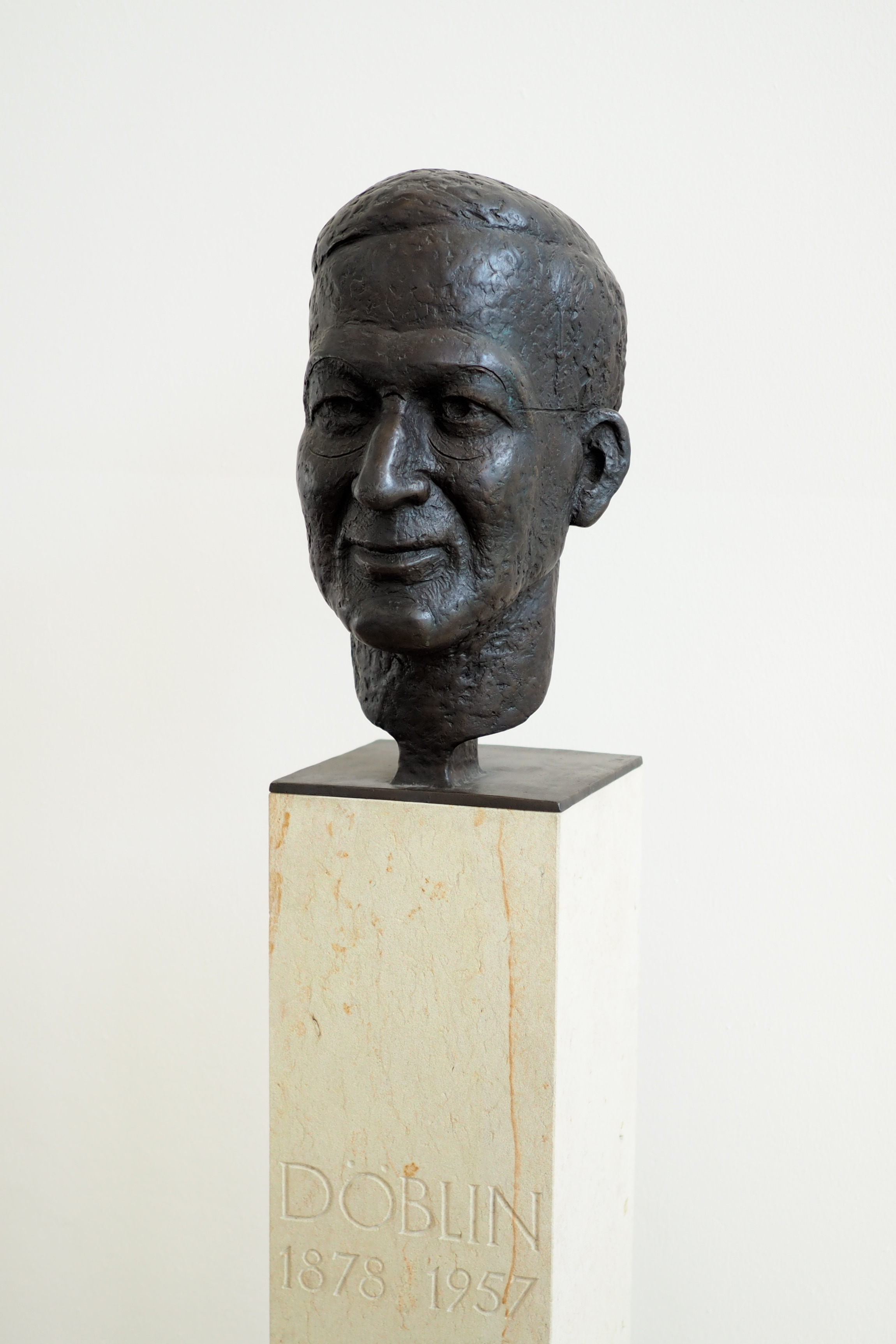 Bust of Alfred Döblin from sculptor Siegfried Wehrmeister. In bronze ca. 45 cm on 140 cm pedestal. casting 2011